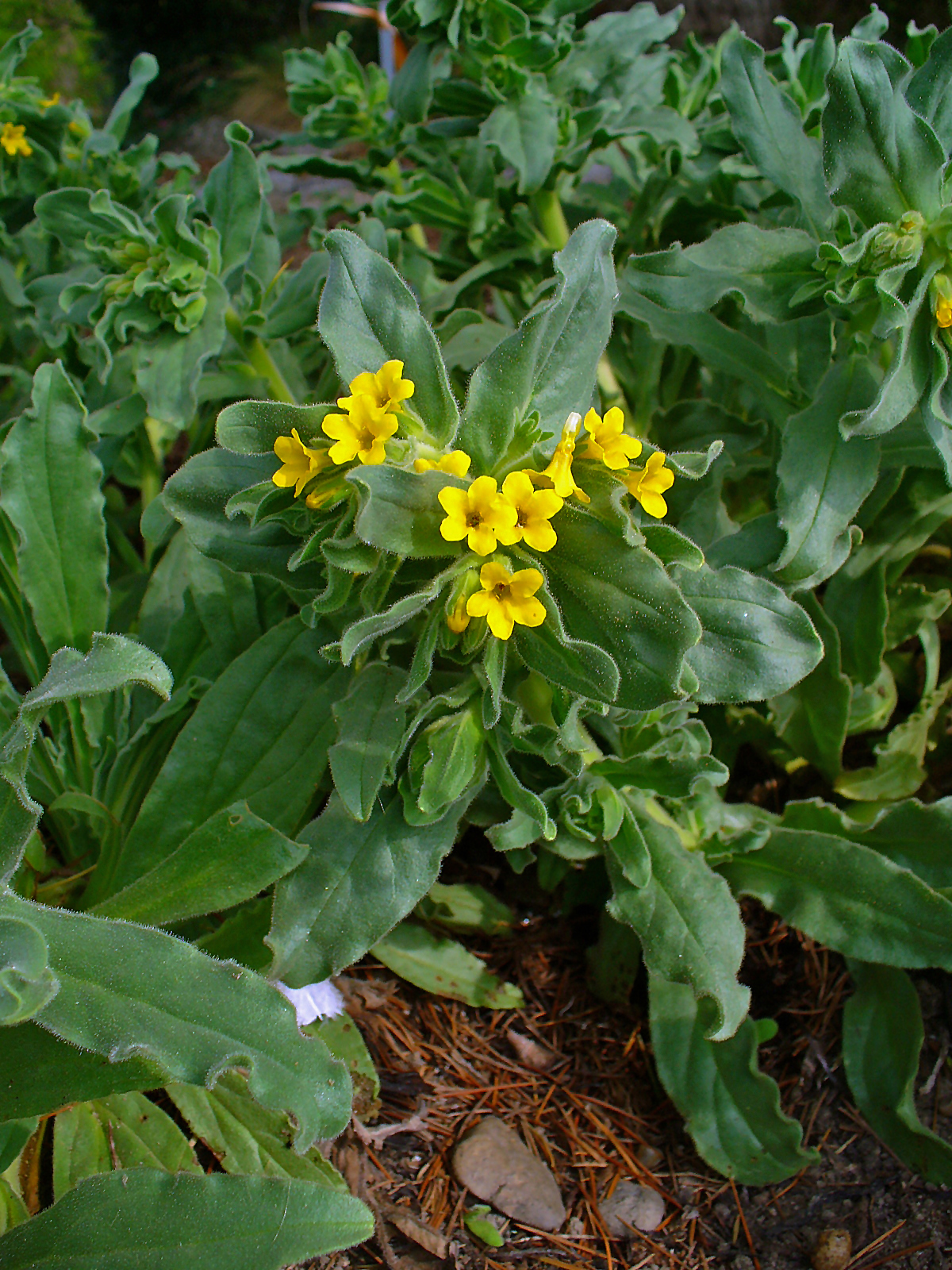 Alkanna orientalis, Boraginaceae, Oriental Alkanet, habitus. Botanical Garden KIT, Karlsruhe, Germany.